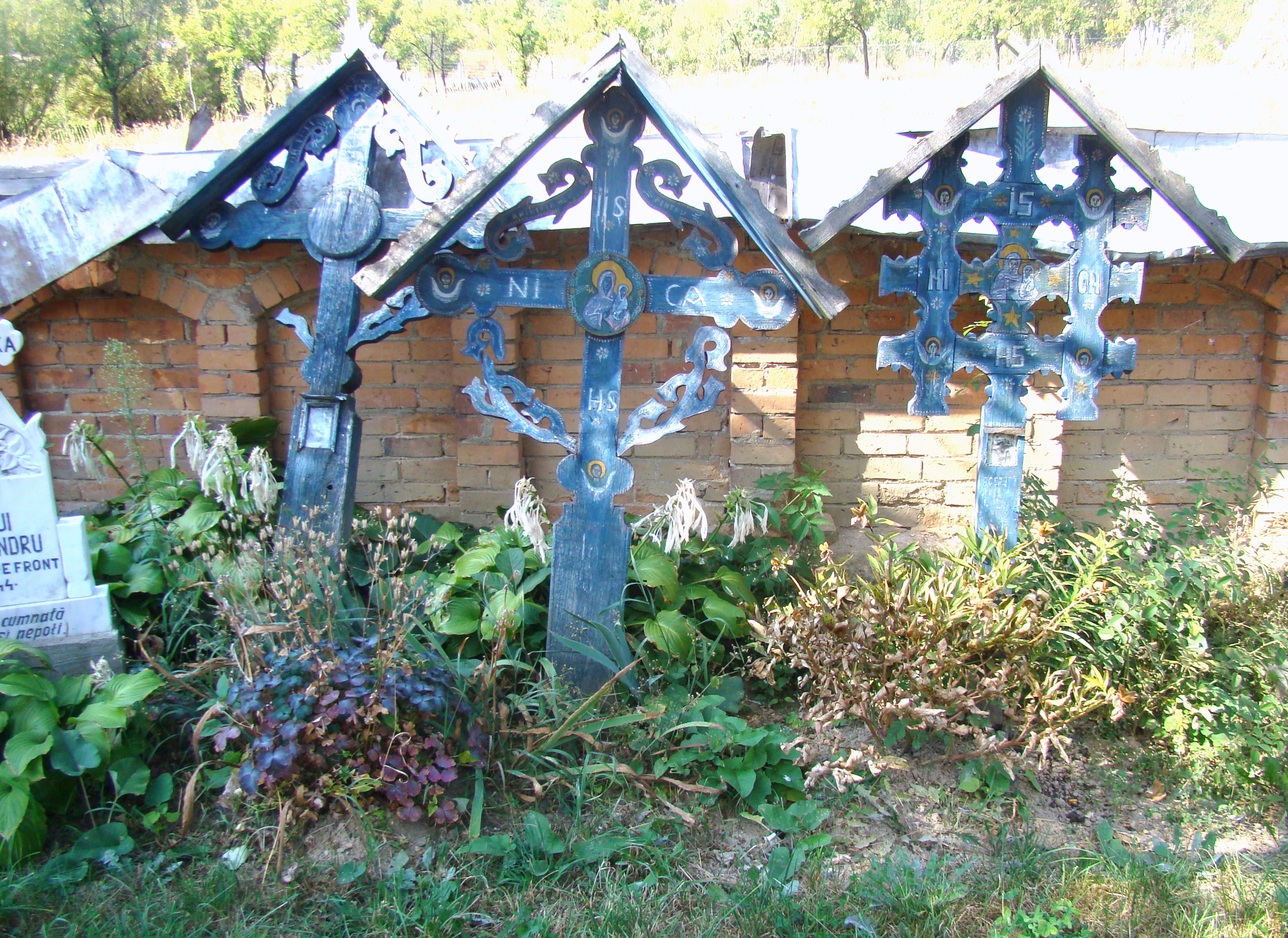 Wooden church of Pious Saint Parascheva in Cărpiniș, Gorj county, Romania